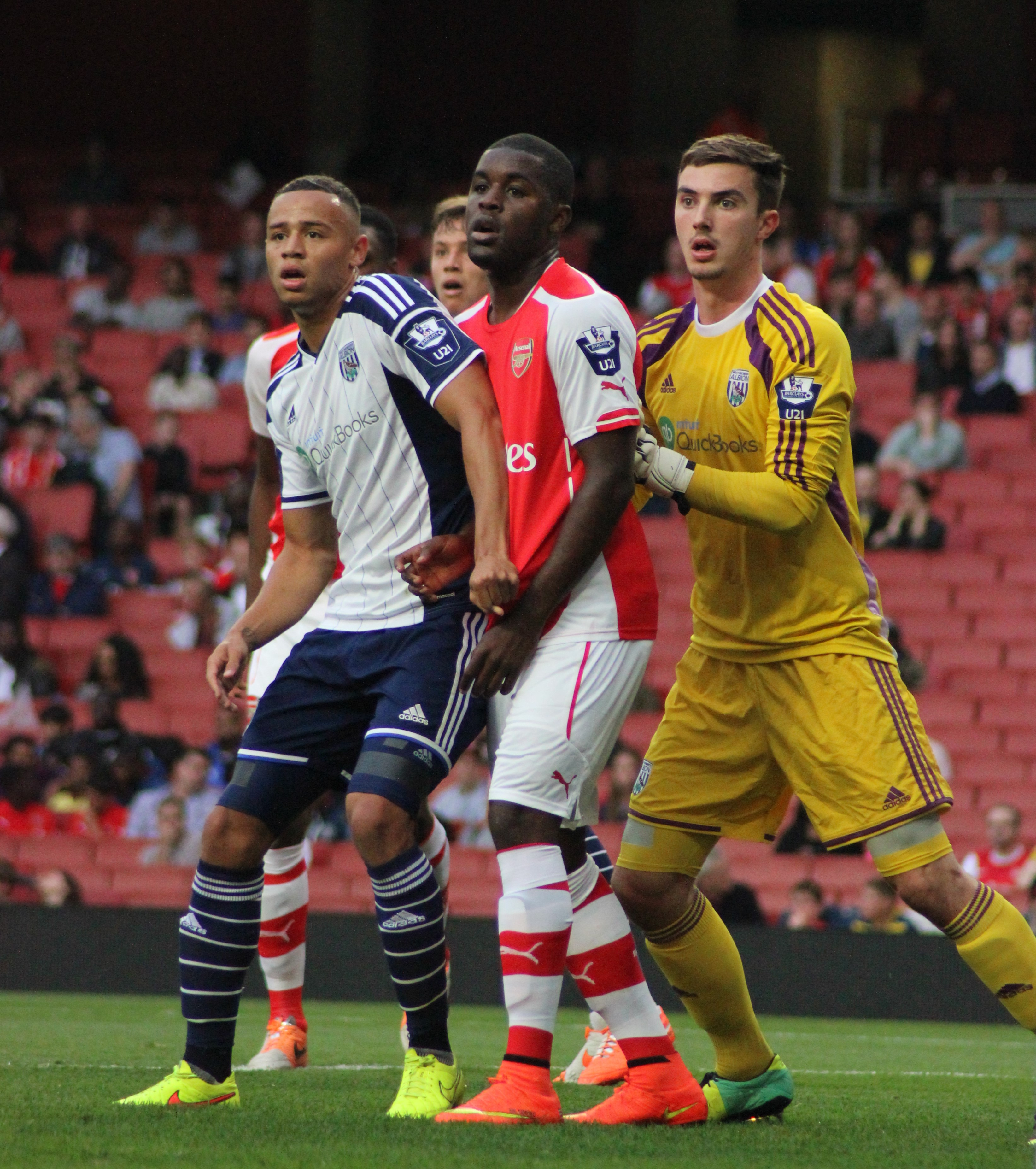 Joel Campbell of Arsenal is marked by West Brom players.